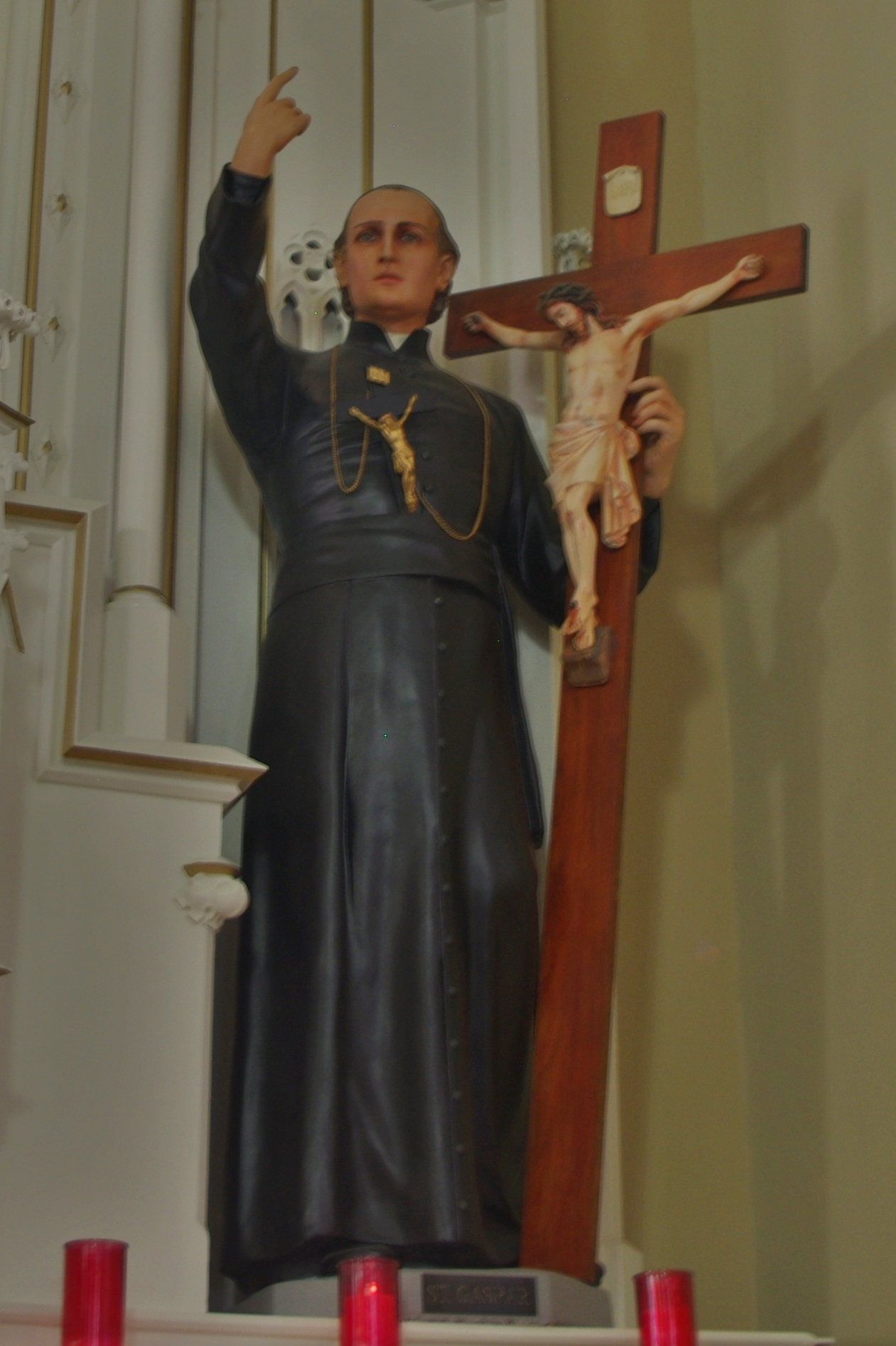 Saint Mary Catholic Church (Philothea, Ohio) - interior, statue of Saint Gaspar del Bufalo